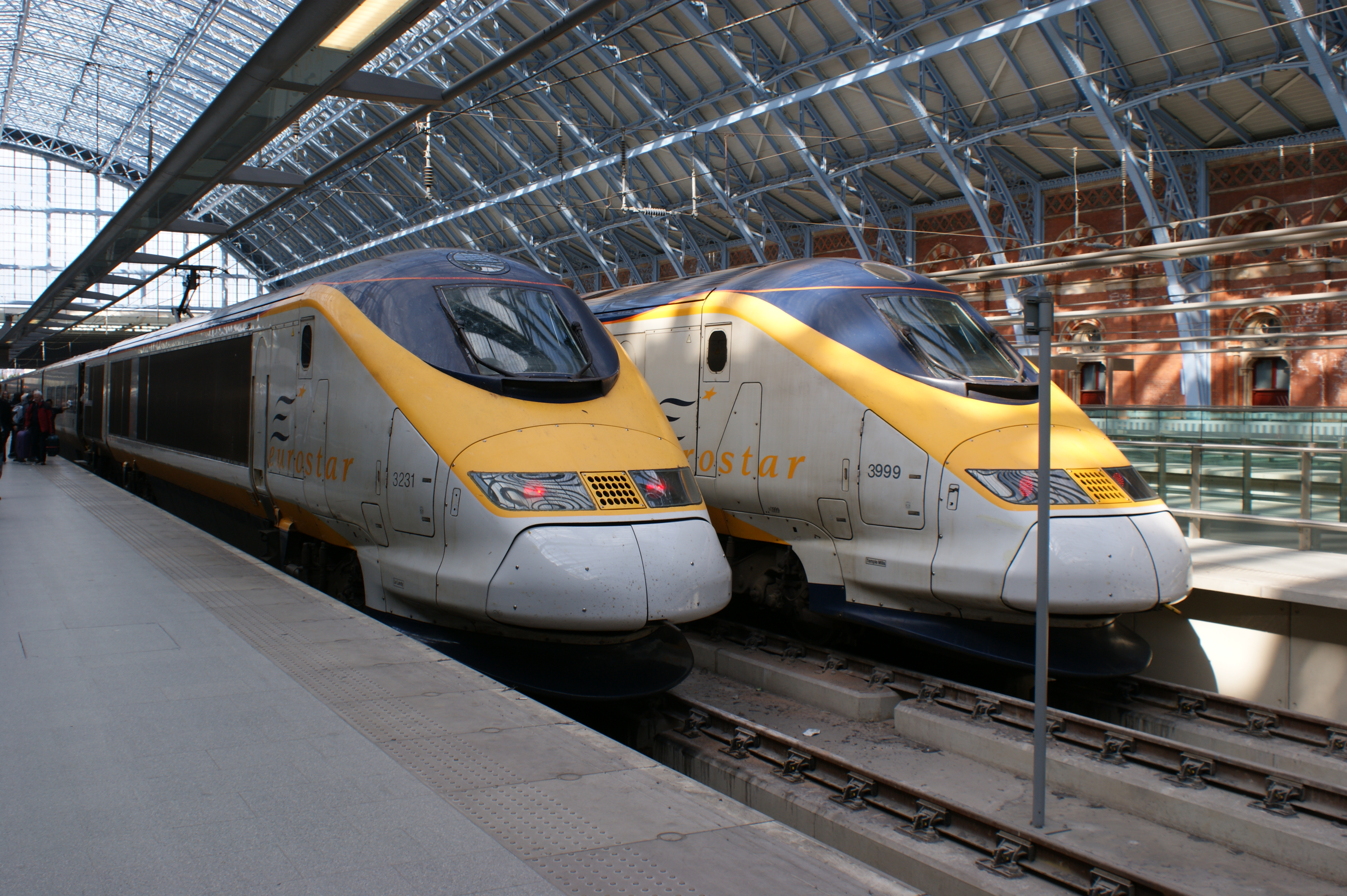 GEC-Alstom/Brush/De Dietrich 3,000V dc/25kV ac/1,500 v dc overhead Class 373/0 "Eurostar Three Capitals" 10-car half-set emu No.3213 (SNCF owned) and No.3999 (EU-UK owned spare set) at St.Pancras International, 03/09.